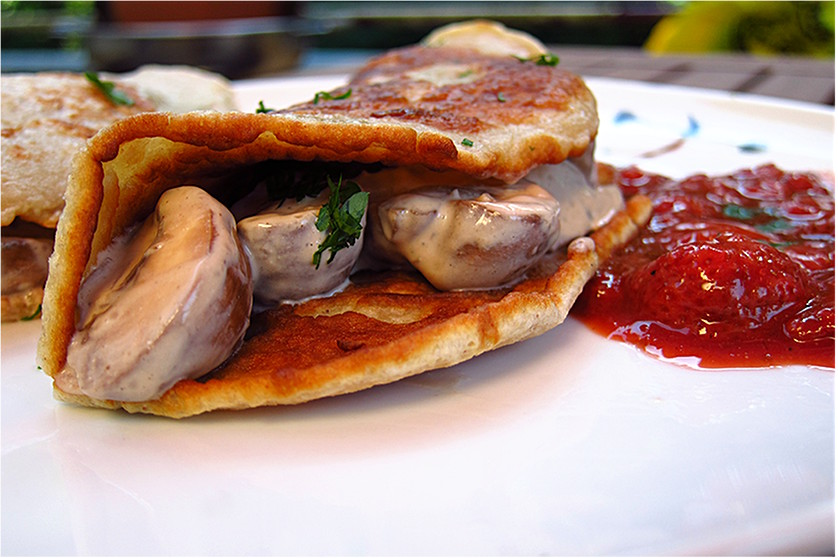 Buckwheat-pancake with mushrooms and strawberry-sauce